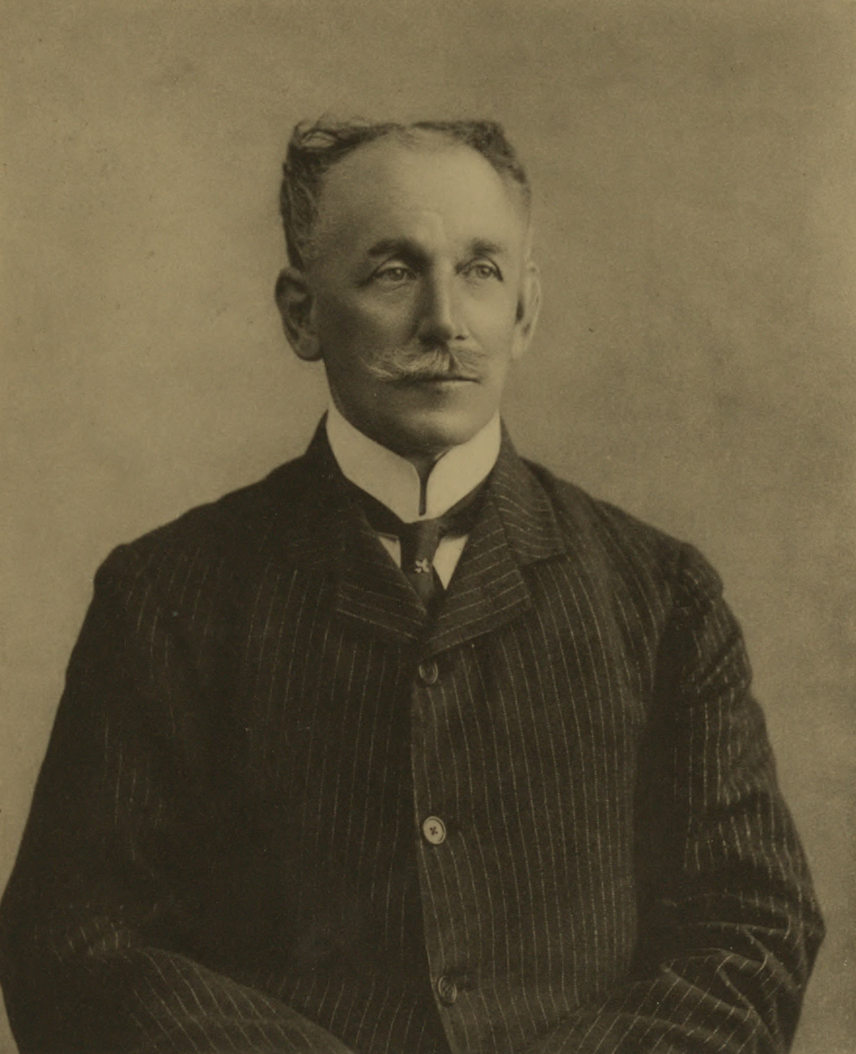 Sir Elwin Palmer. Financial Adviser of Egypt; later President of the National Bank. Died in 1906